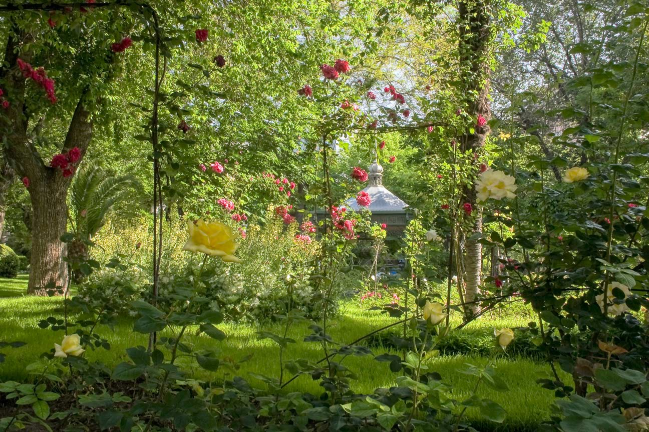 Paseo San Gregorio